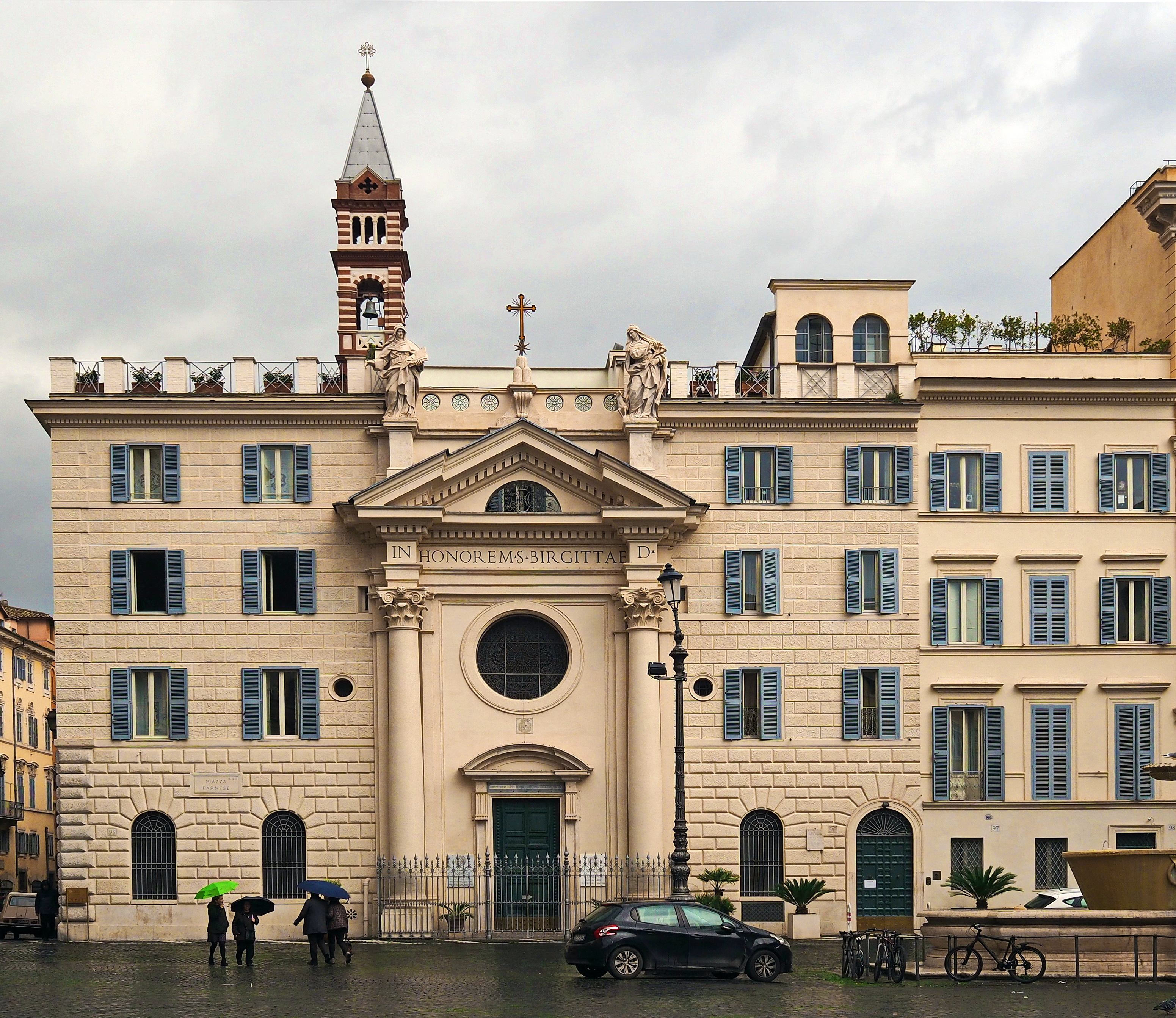 Piazza Farnese (Rome); Staint Brigitta